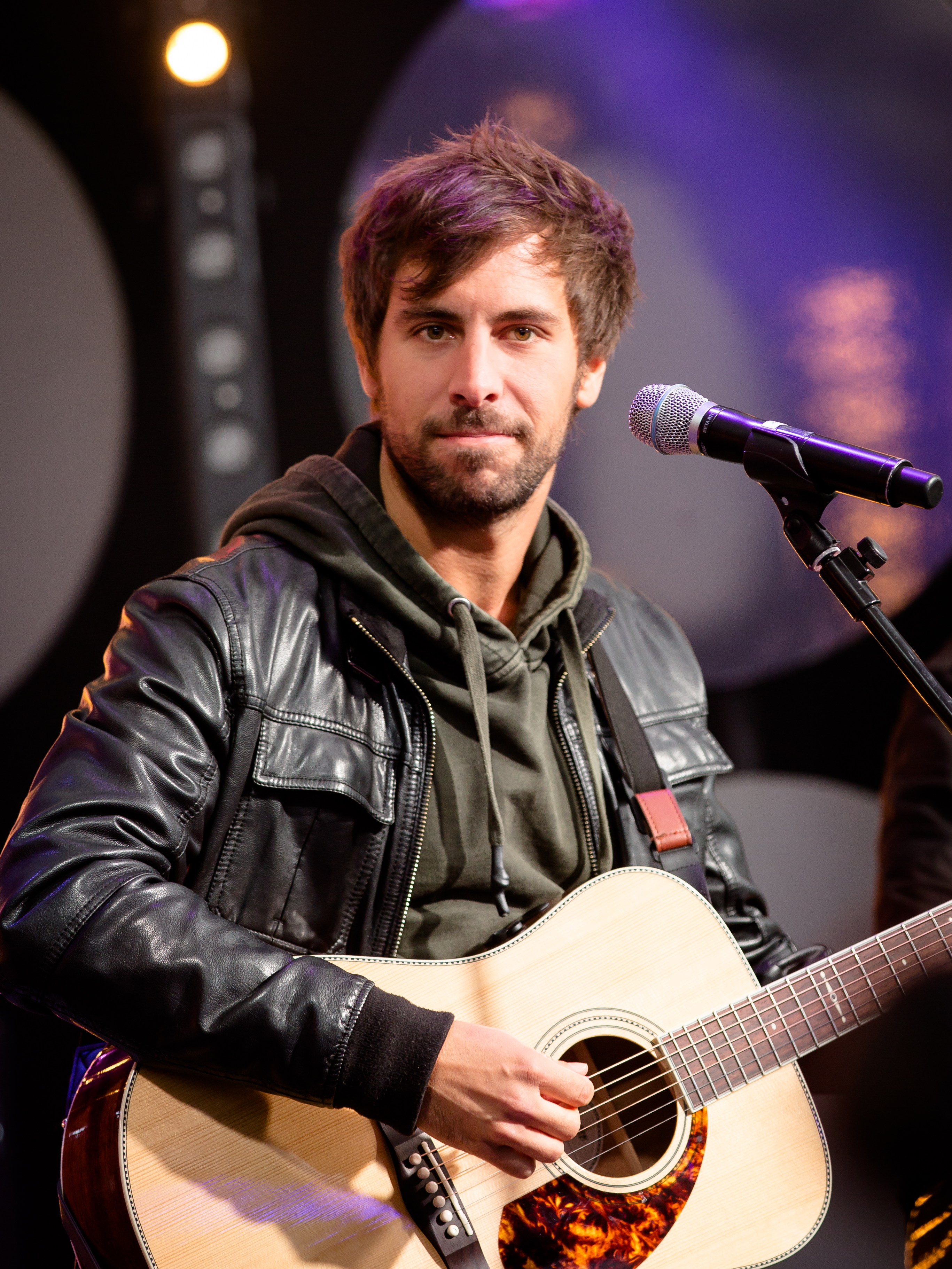 Singer Max Giesinger at the SWR3 New Pop Festival 2017